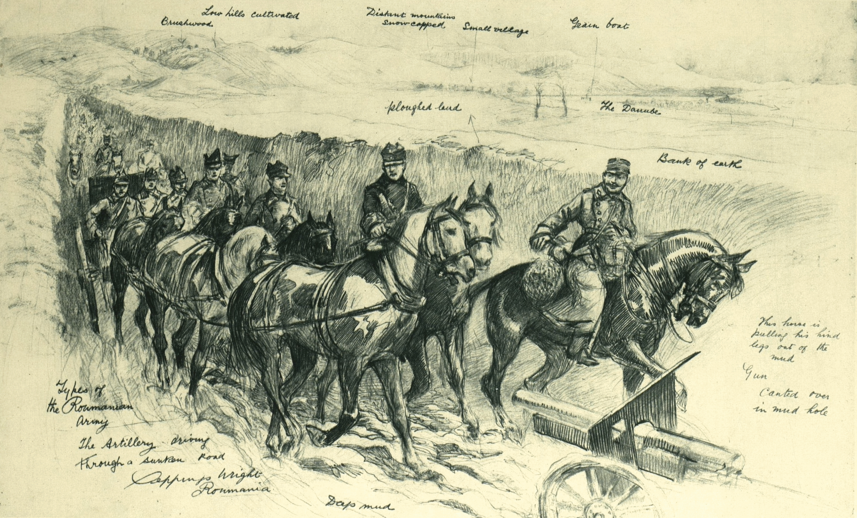 Big Roumania - A surprise for the enemy - Guns on the move behind artificial cover Roumanian Preparations: on a frontier "Sunken Road", Constructed that troops may not be seen across the Danube - an artillery battery passing "If military skill in preparation and careful organisation count as steps towards victory," writes our artist in forwarding the above sketch, made on the spot, "we have on our side in the field a Big Roumania." I was privileged some short time ago to make an extended tour through the most interesting parts of the country, and can safely and confidently say, in direct opposition to opinions which have been expressed in certain German high quarters to the effect that 'a small Balkan State can never become a decisive factor in the settlement of Armageddon,' that those who uttered the dictum will find themselves woefully mistaken. Roumania's Army is ready, and everywhere throughout the country arrangements have been made for its employment at any required point. Transport difficulties have been overcome and all measures taken to ensure success." As the drawing shows, " special sunken roads have been constructed at many places to afford shelter and security to marching troops." In the illustration a battery of Roumanian artillery is seen making its way, well screened front observation, in the neighbourhood of the Danube, seen towards the background, flowing on this side of the mountains. [Drawing Copyrighted in the United States and Canada.)